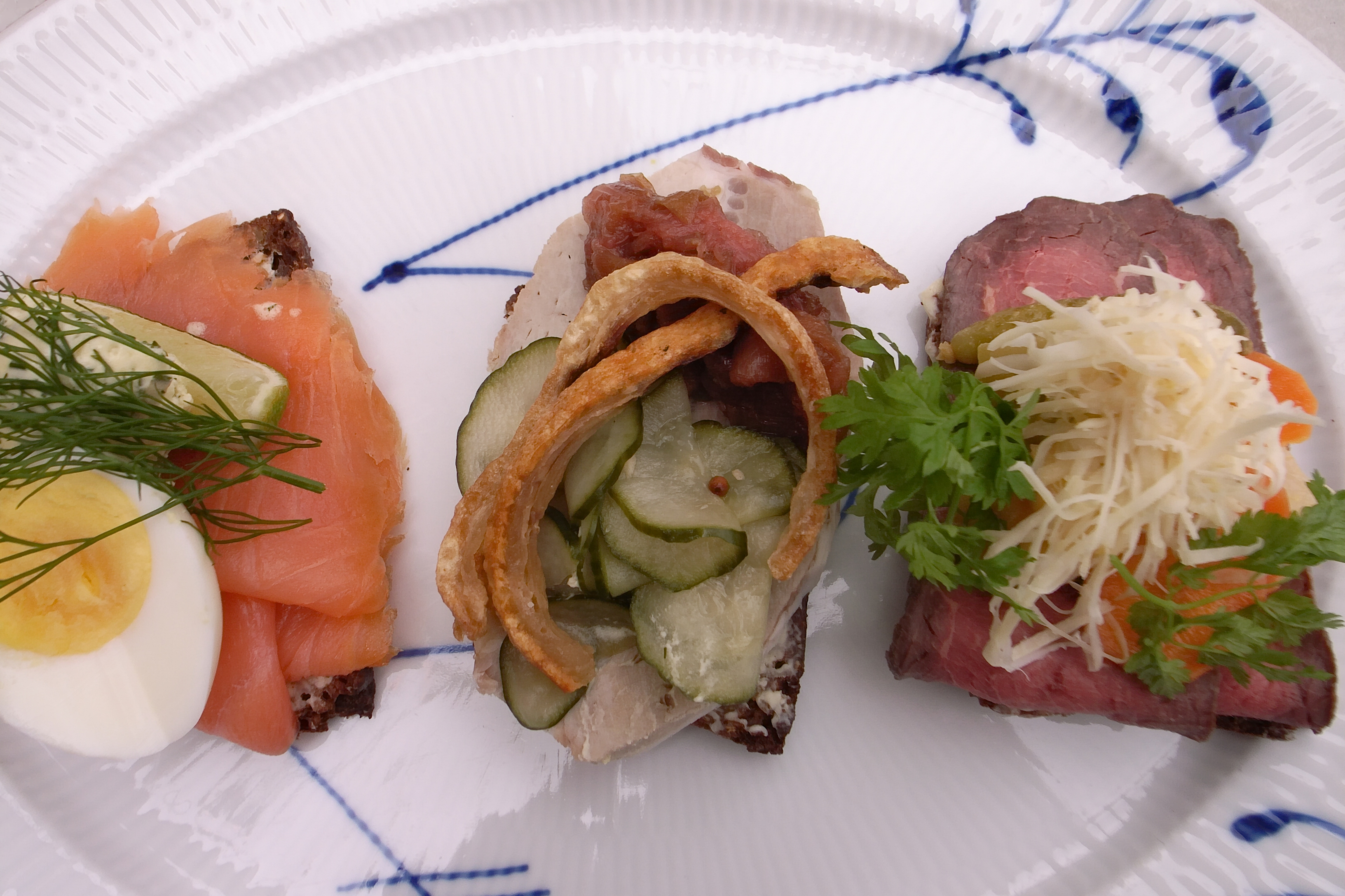 Three pieces of Smørrebrød. Smoked salmon (topped with hardboiled egg, dill), roasted pork (tw. pickled cucumber, red cabbage salsa, crackers) and roastbeef (tw. pickles, horseradish, sprigs of parsley). All on whole grain rye bread (from sourdough).